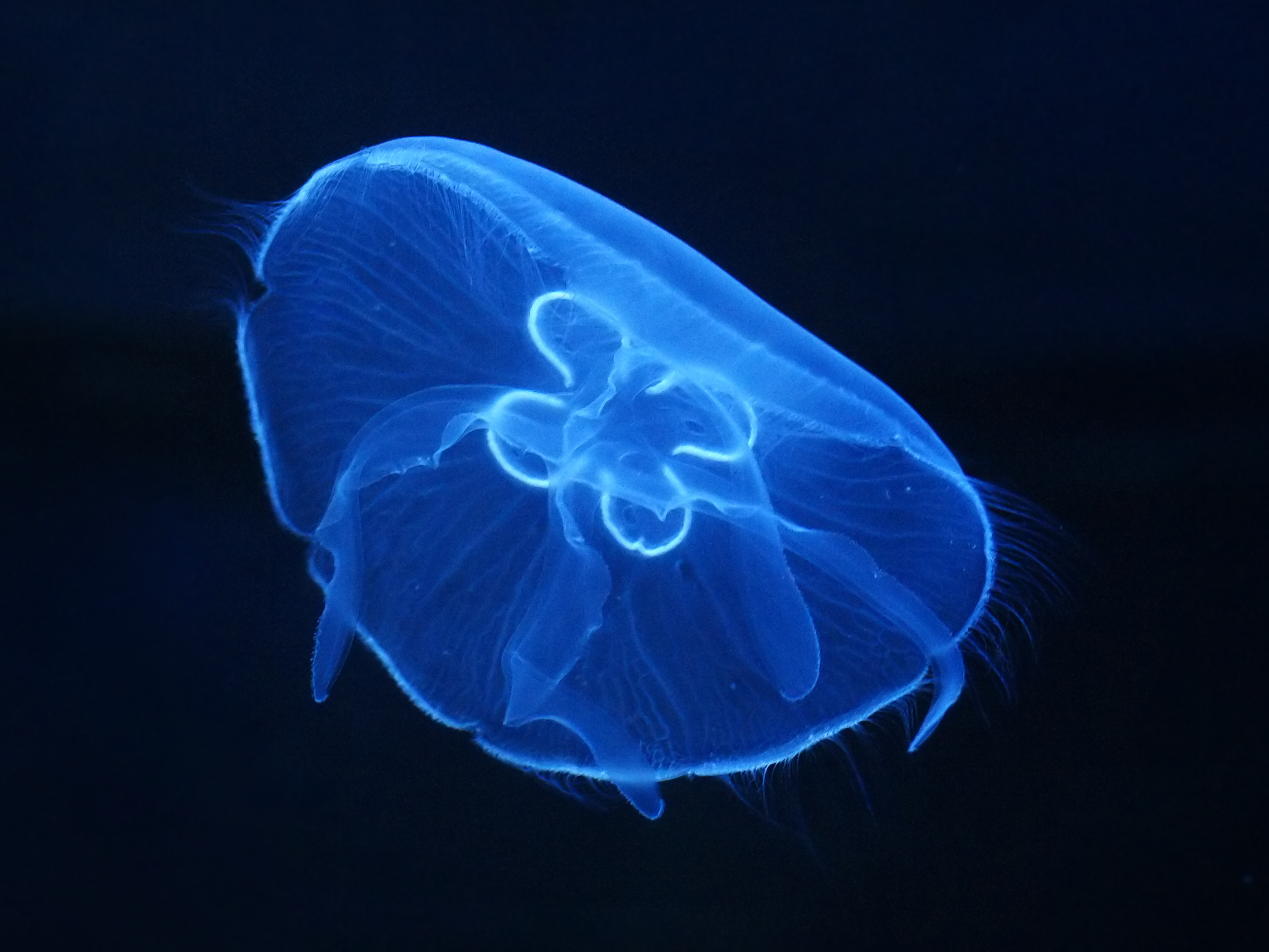 Moon Jelly, at Pairi Daiza, Brugelette, Belgium Because of the lighting, the organism in shown in false colour.